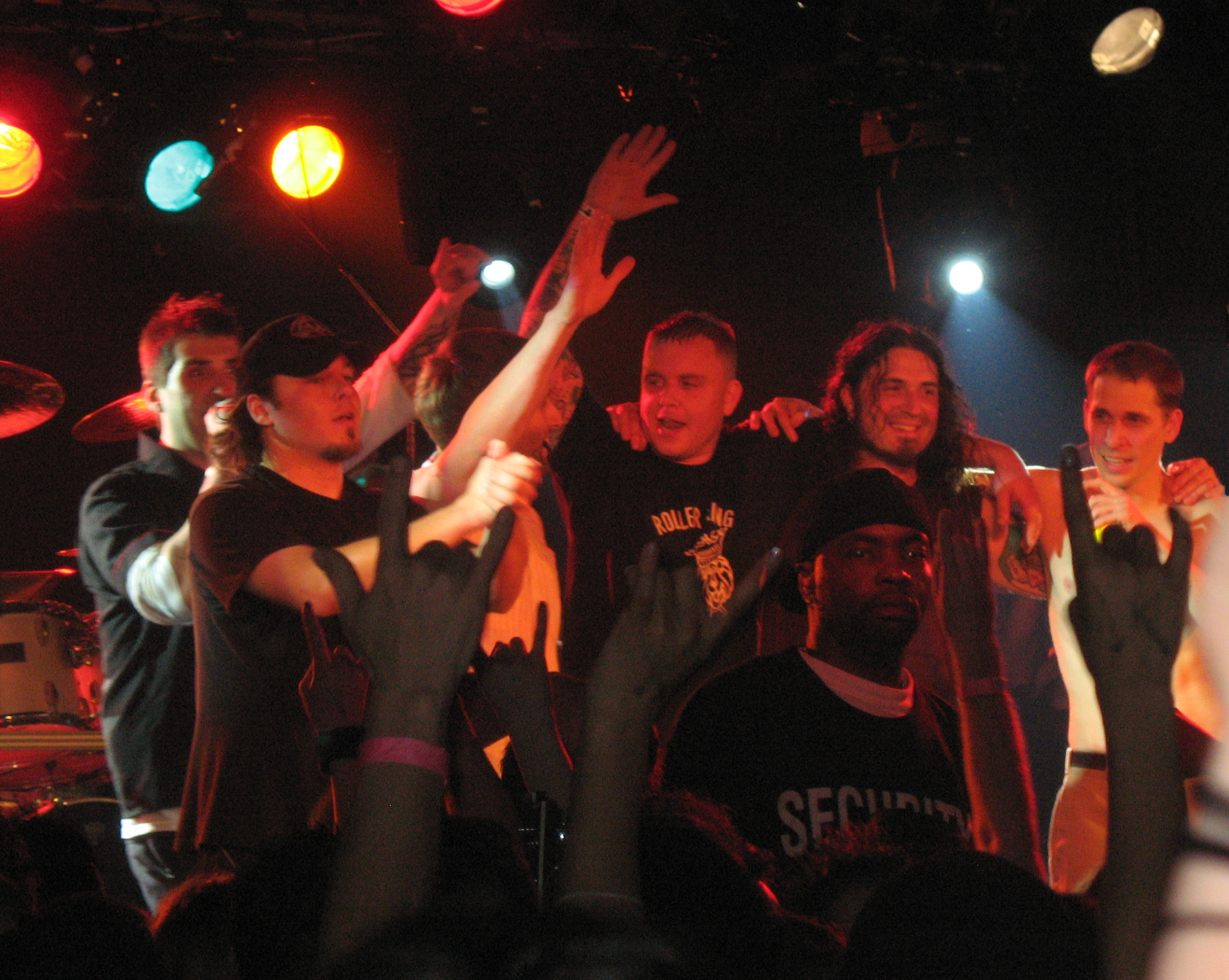 a cropped and slightly photo-edited (to remove some of the hand in the foreground on the far right of the picture) of the picture here